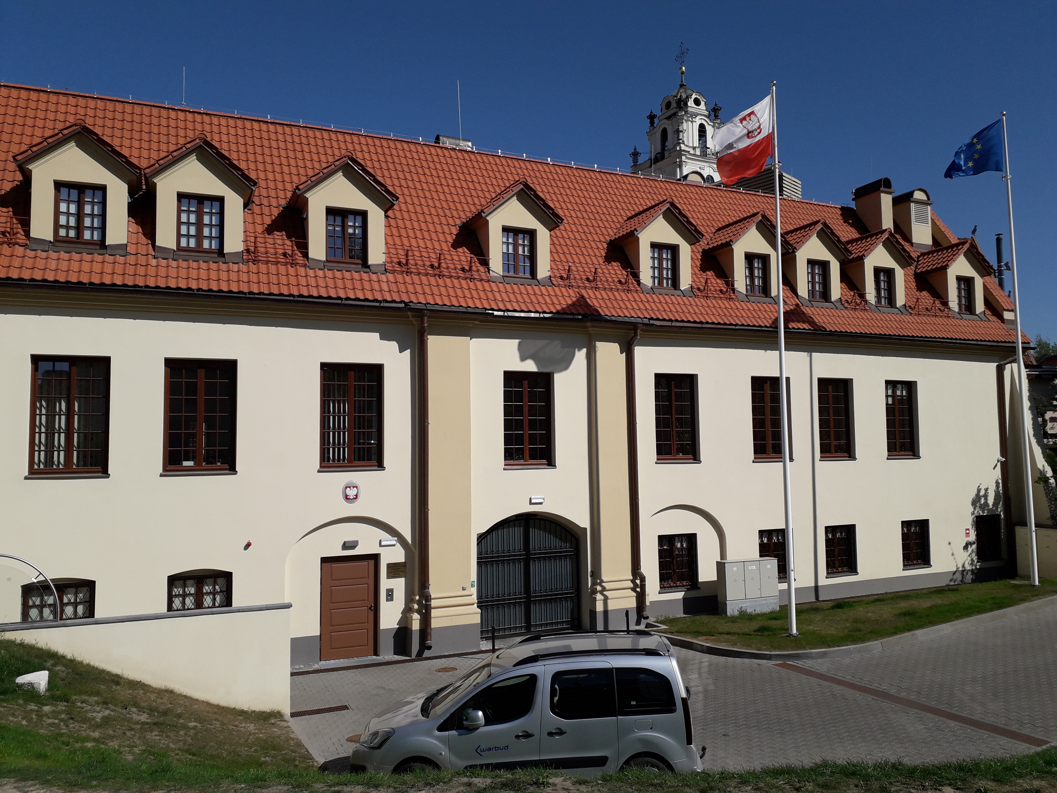 Embassy of Poland in Vilnius, Lithuania